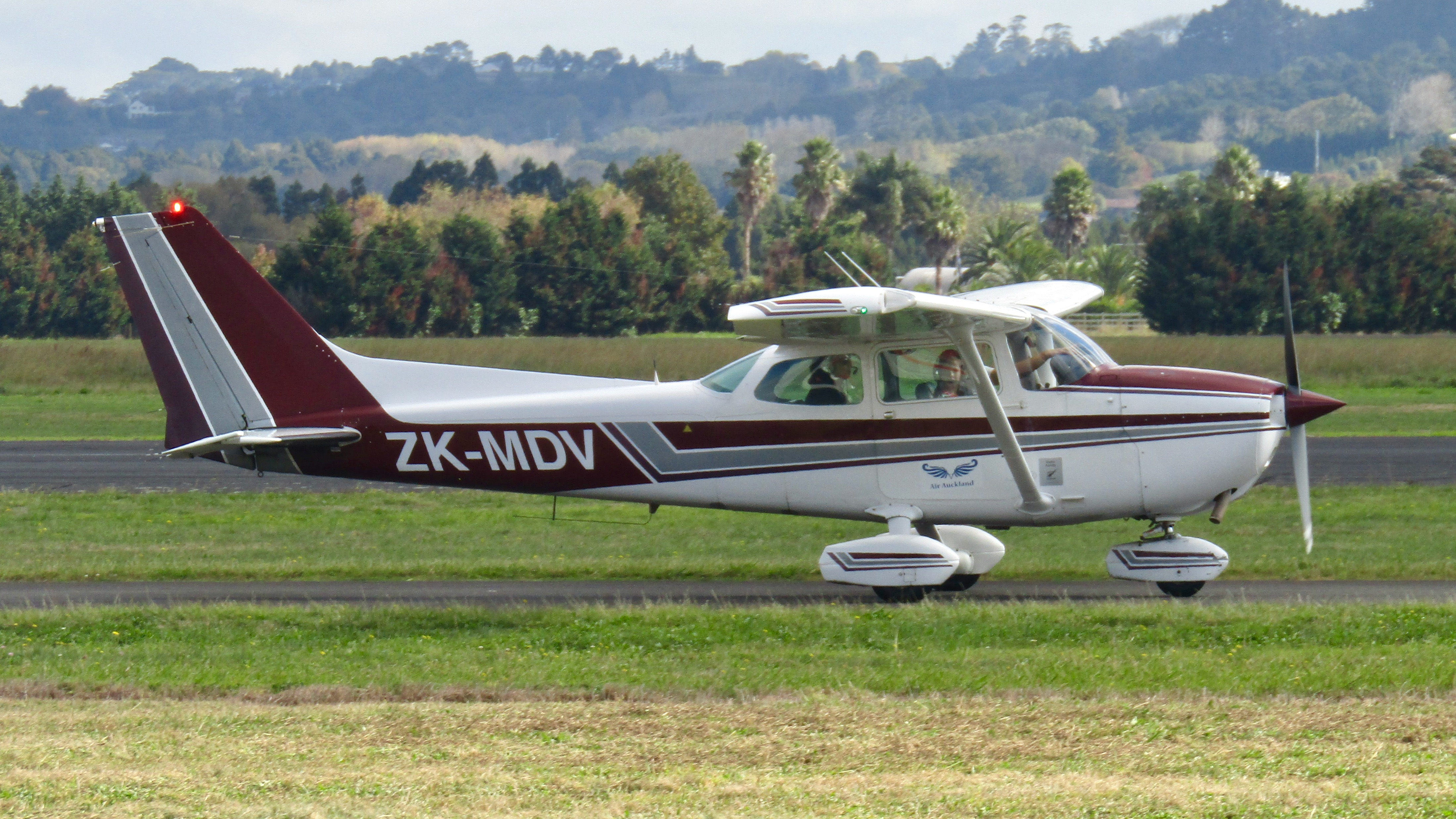 Air Auckland Cessna 172 ZK-MDV operating out of Ardmore on the 25th of April 2019 amid ANZAC Day operations at the Warbirds hangar.